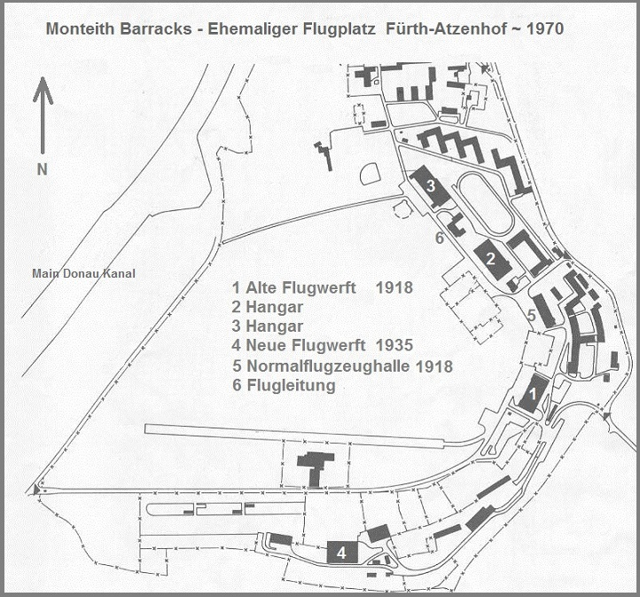 Montheis Barracks Fürth